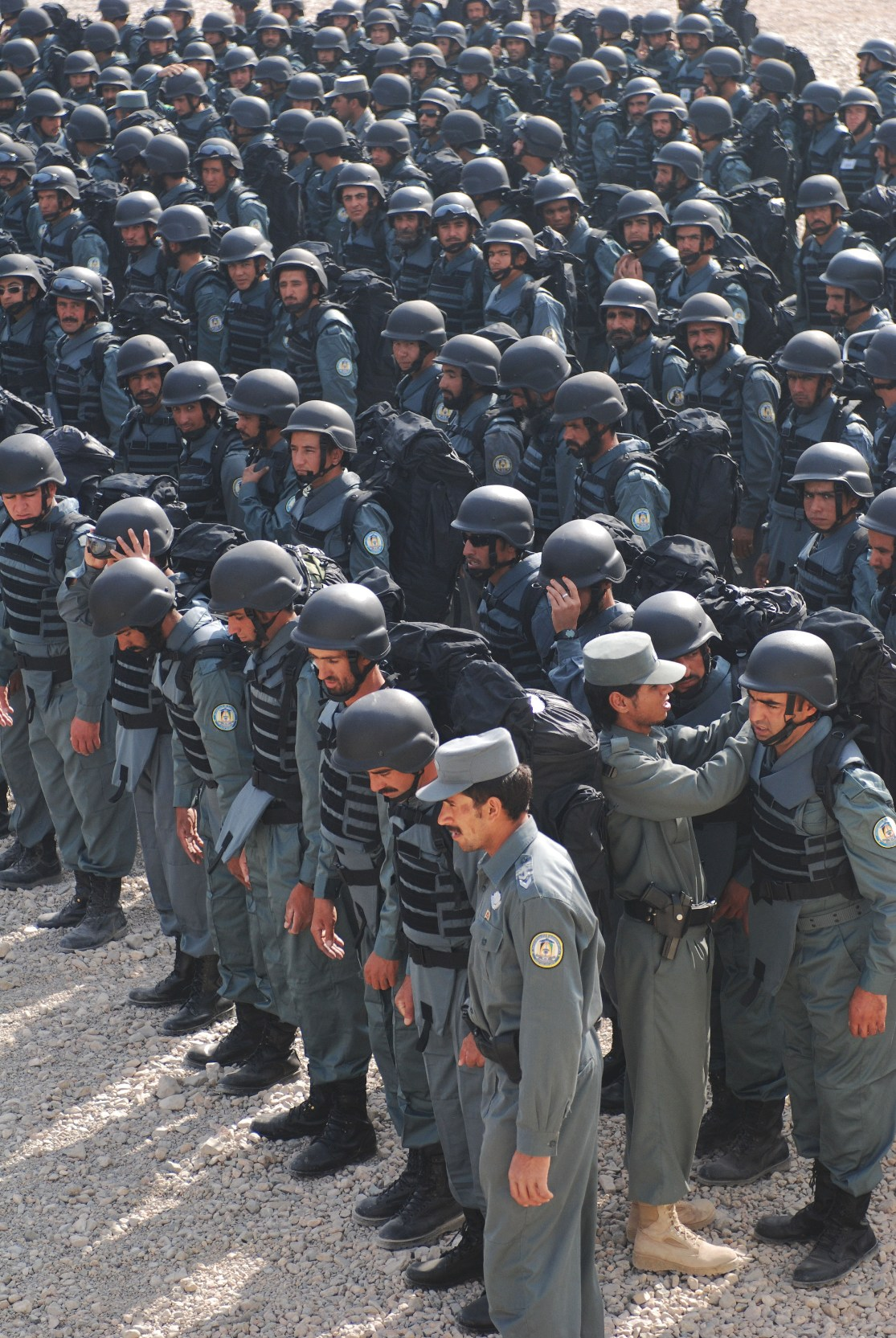 Hundreds of Afghan National Police prepare to graduate from a police academy Oct. 29 at the ANP headquarters in Herat, Afghanistan. The graduates were among thousands of police being added to the ANP in an effort to raise its current strength of 81,000 to 160,000 by 2013. (U.S. Army photo by Sgt. Stephen Decatur)